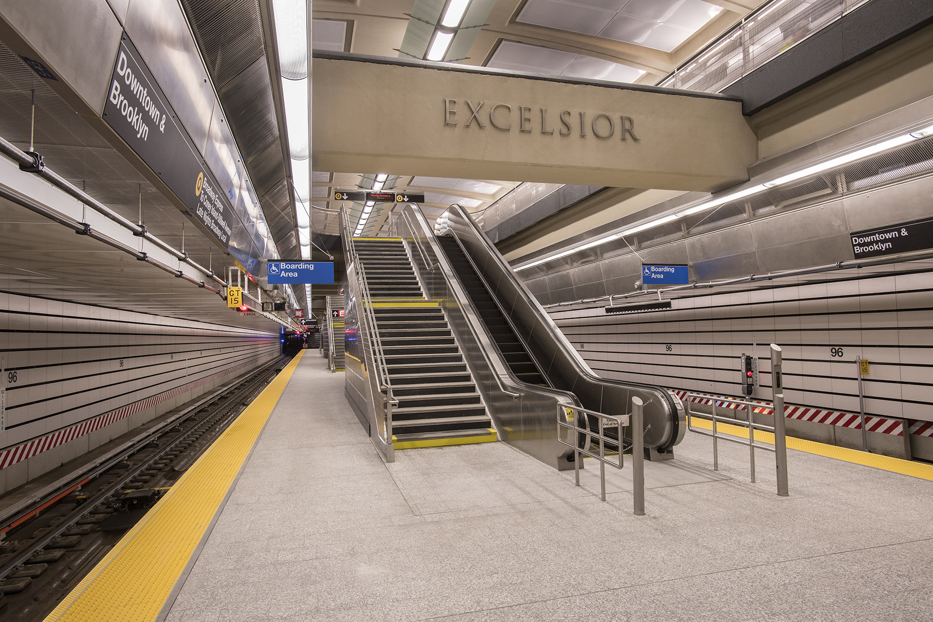 96th Street Station of the Second Avenue Subway Line displayed to the public for the first time on December 22, 2016.